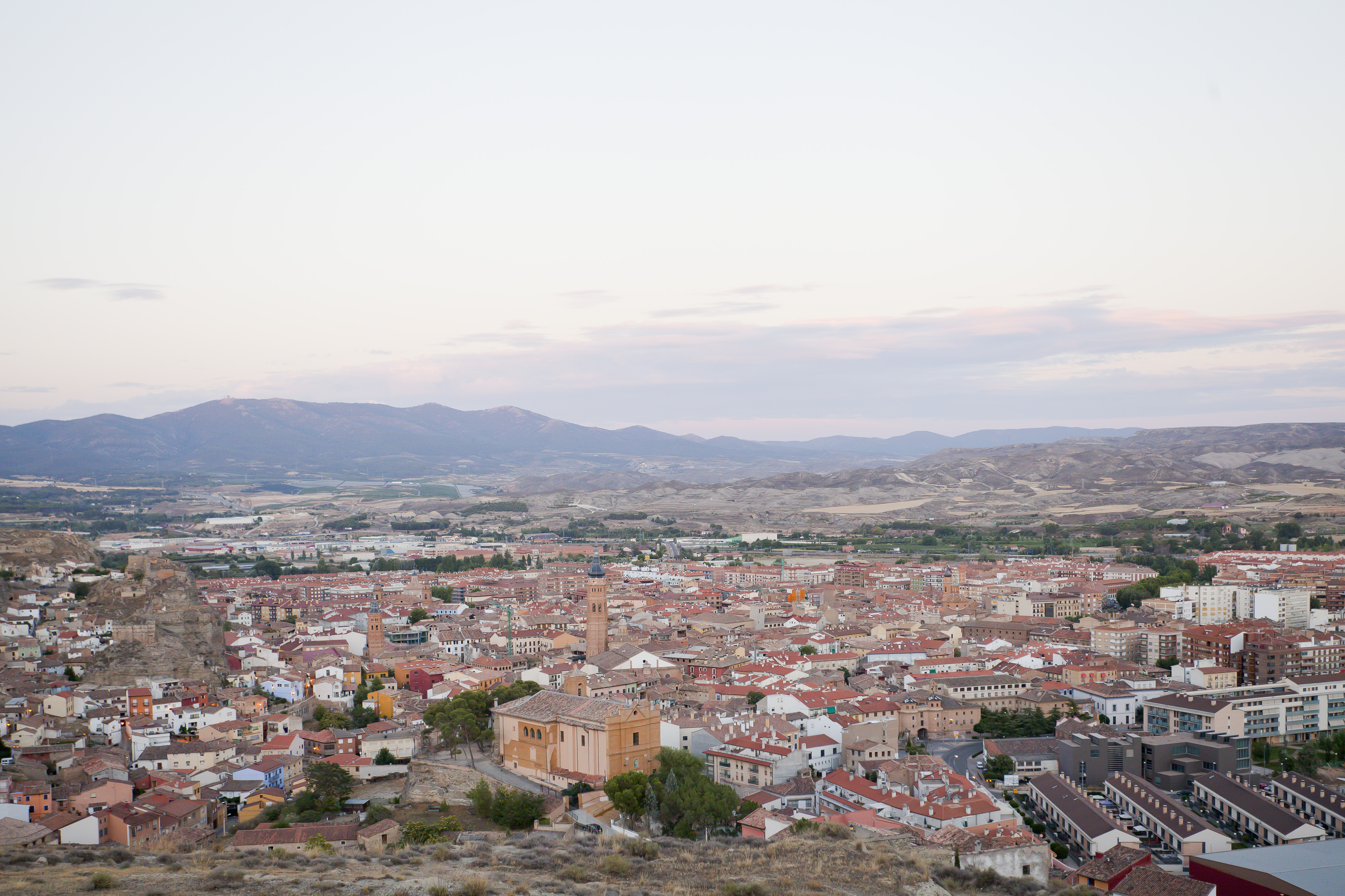 View of Calatayud from San Roque, Spain